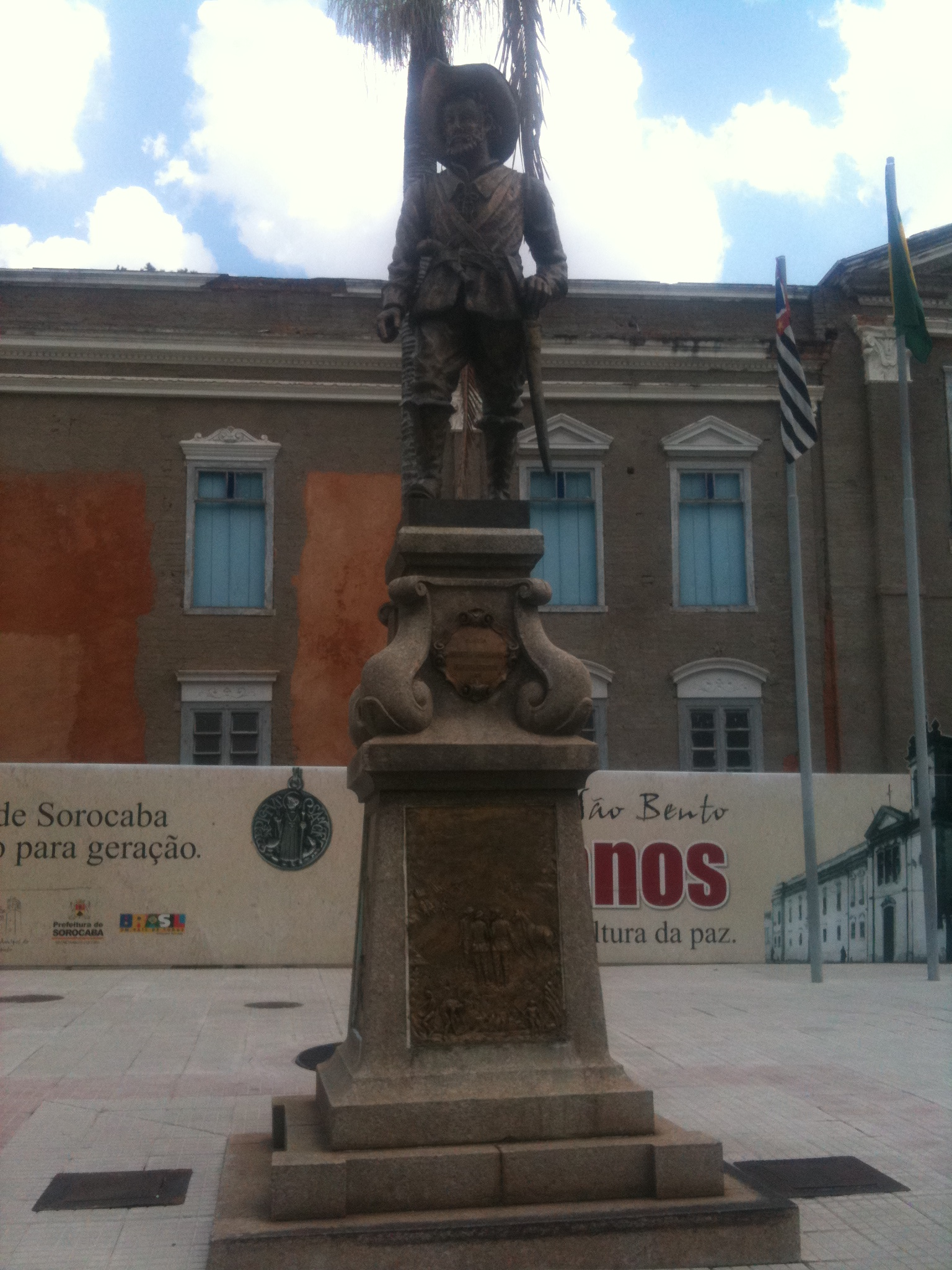 Statue de Balasar Fernandes au centre de Sorocaba